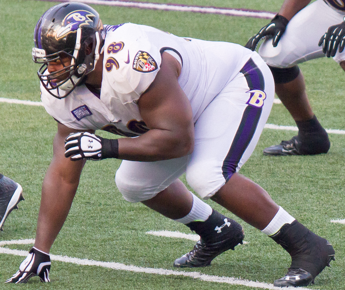 Brandon Williams at Ravens Stadium Practice Aug 2013